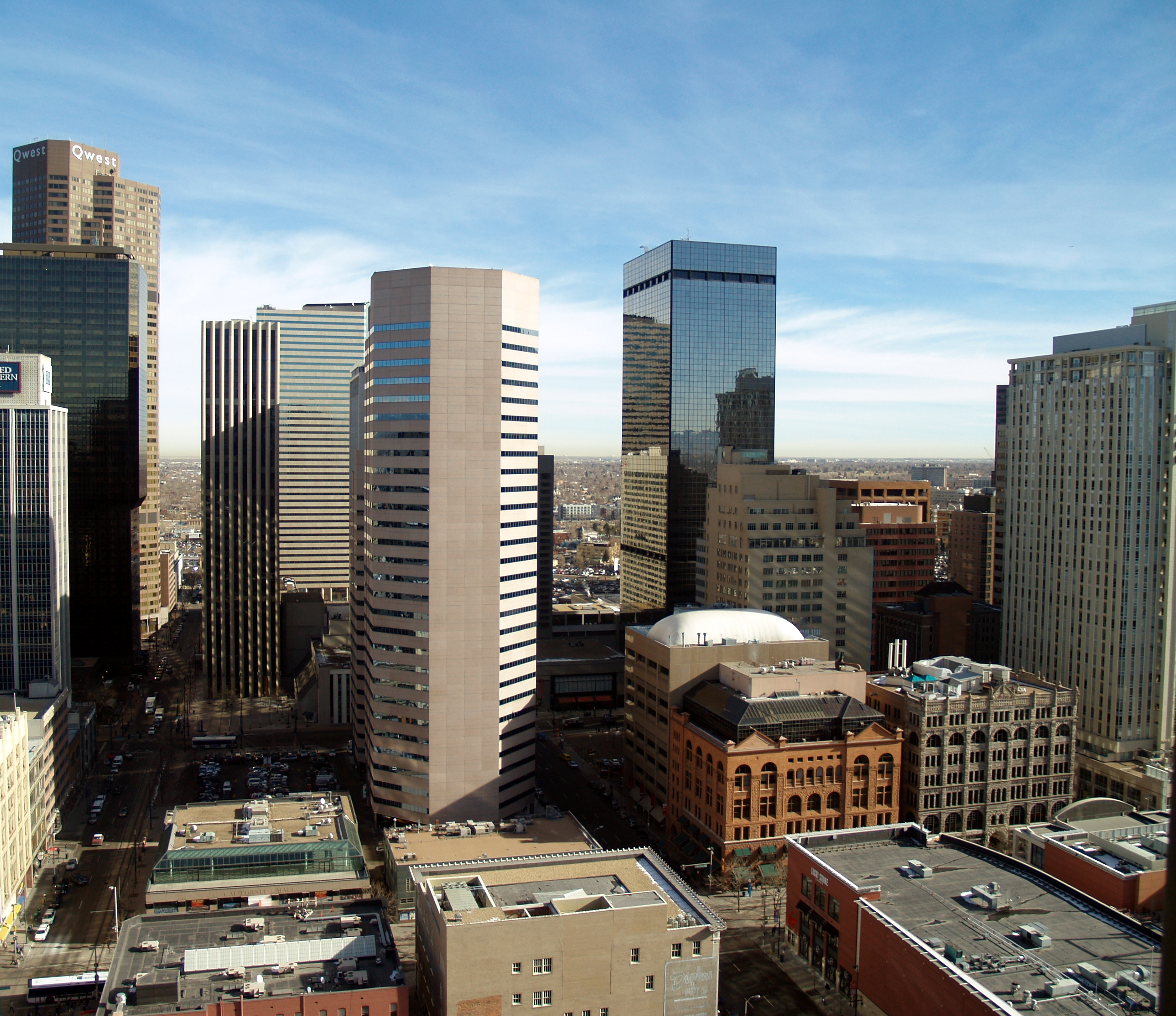 Downtown skyscrapers in Denver, Colorado.